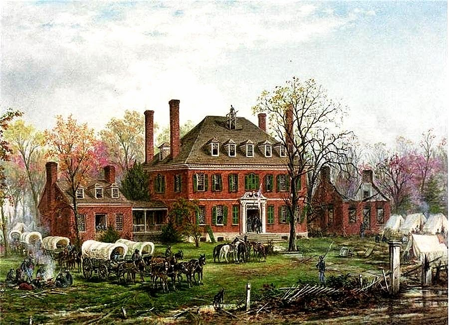 Westover Plantation on the James River, Virginia, in 1865.